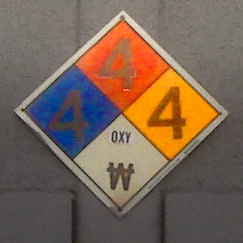 Photograph of a NFPA 704 hazard diamond for a particularly hazardous building